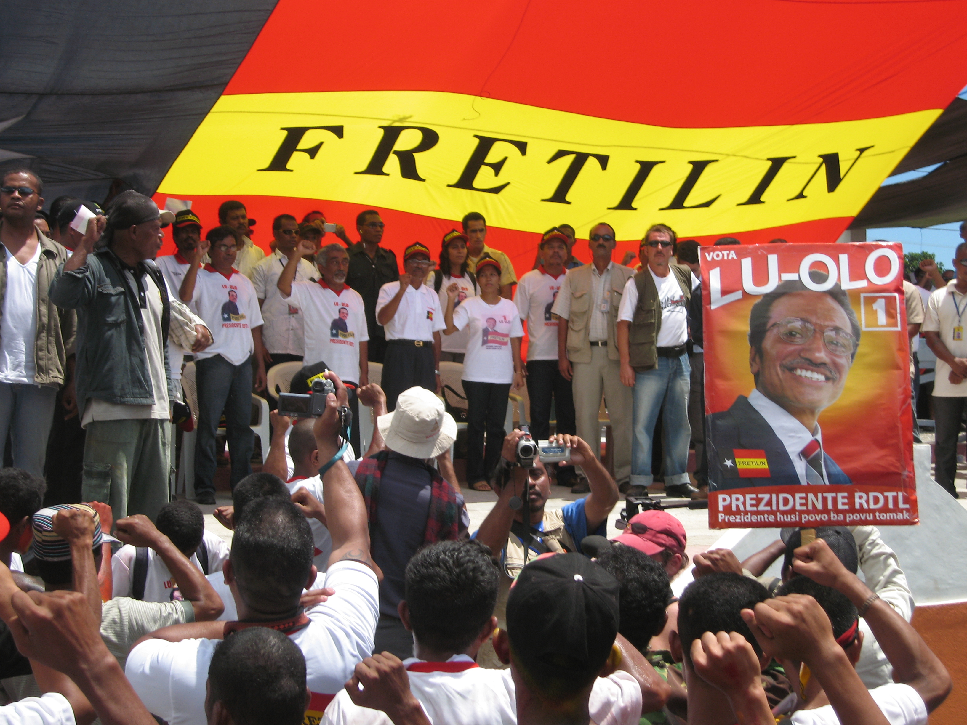 Francisco Guterres and Mari Bin Amude Alkatiri at FRETILIN campaign for presidential election 2007